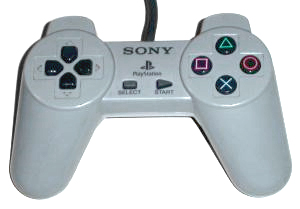 An original (pre-DualShock) PlayStation controller.